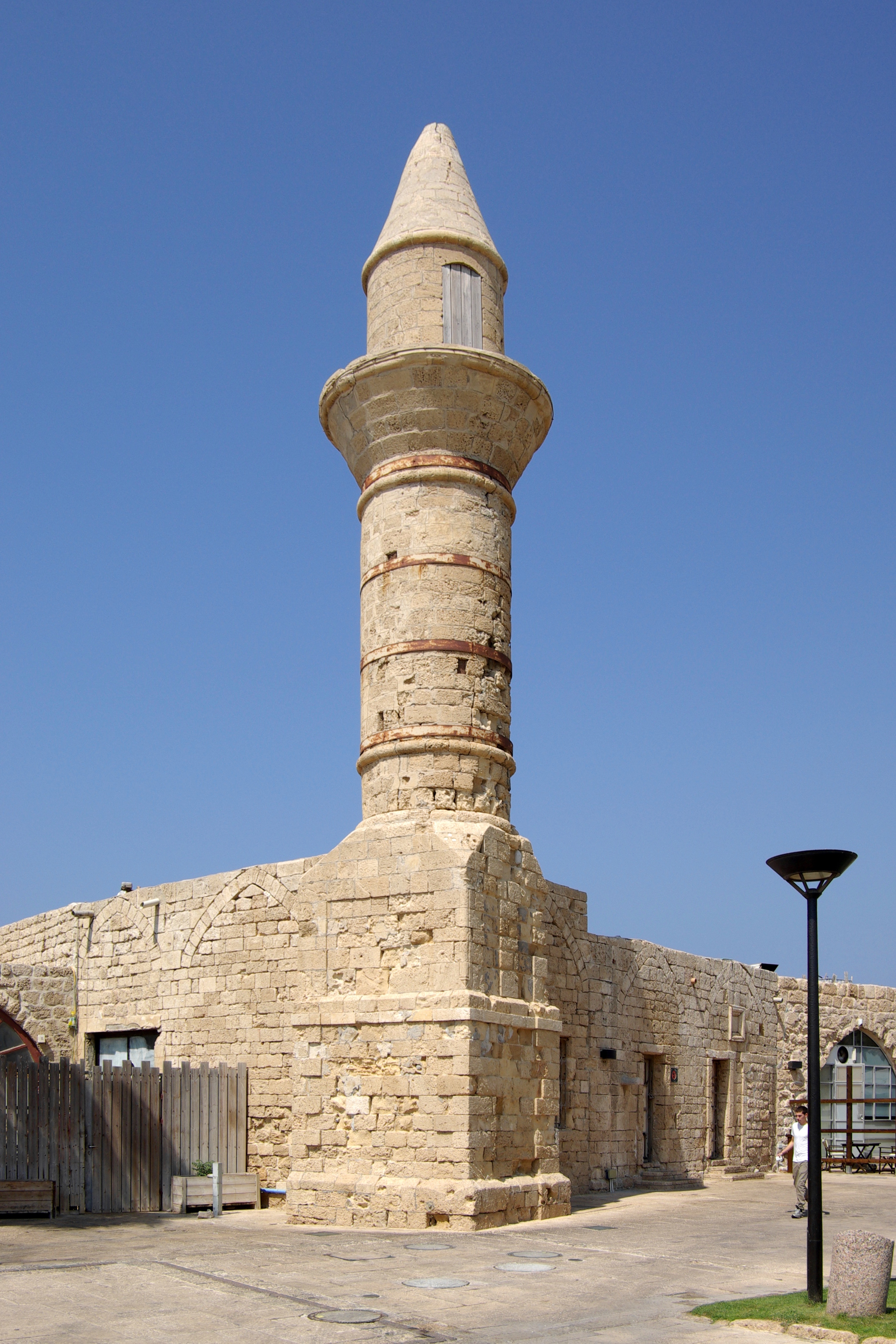 Caesarea maritima, minaret